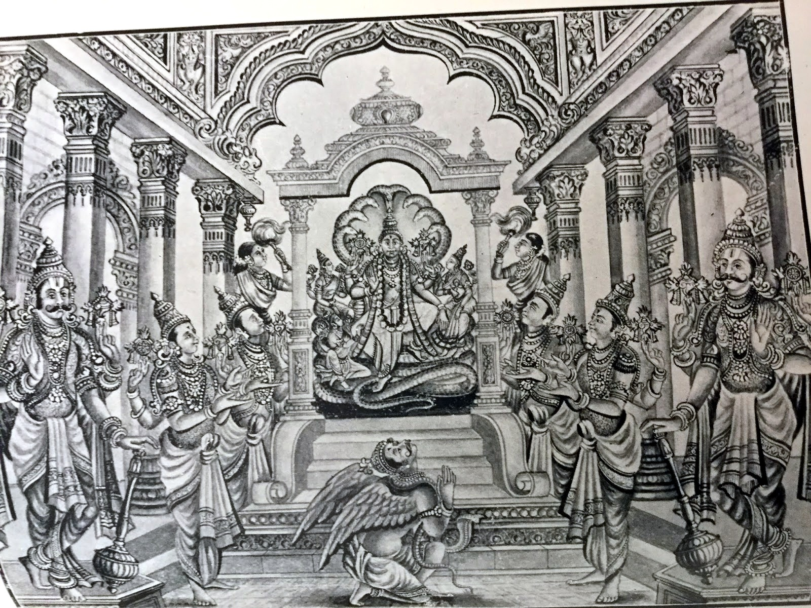 BHAGAVATA PURANA- RARE PICTURES